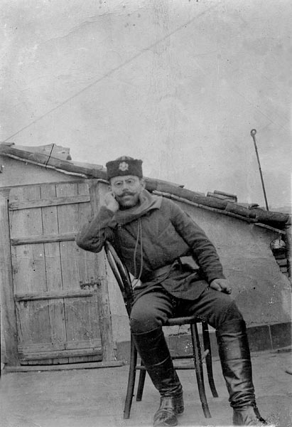 Yordan Trenkov